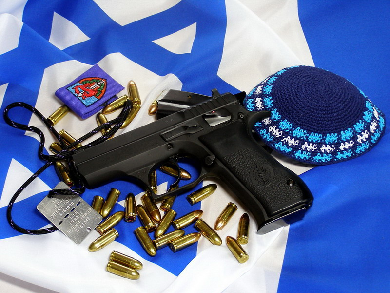 Jericho 941 FS pistol with 9 mm Luger rounds placed on Israeli flag.